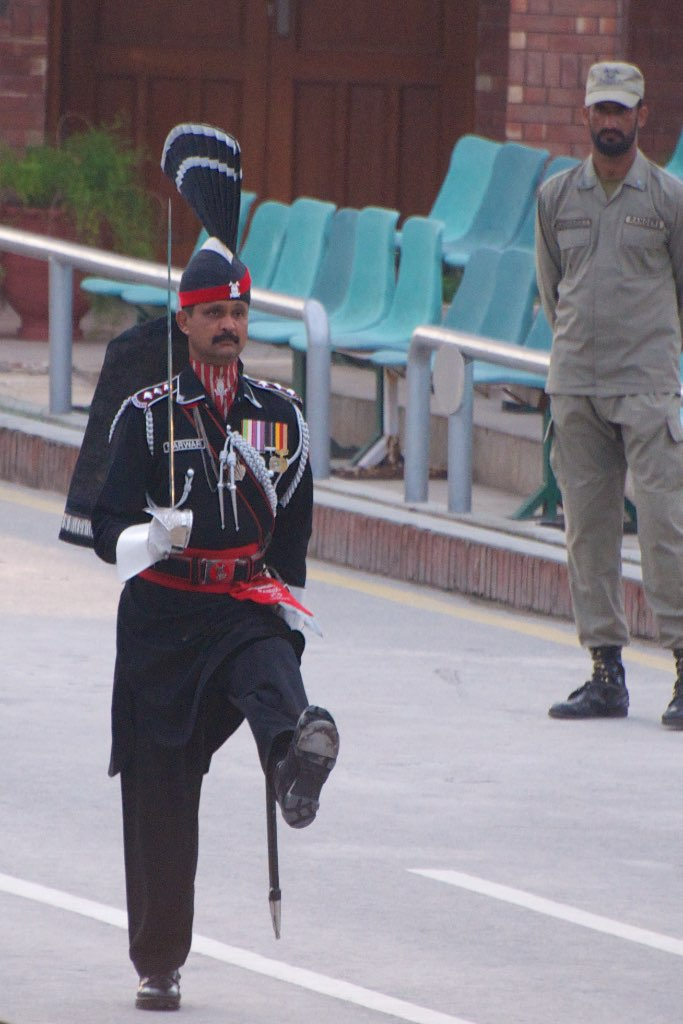 Pakistan guard at Wagah Border Ceremony